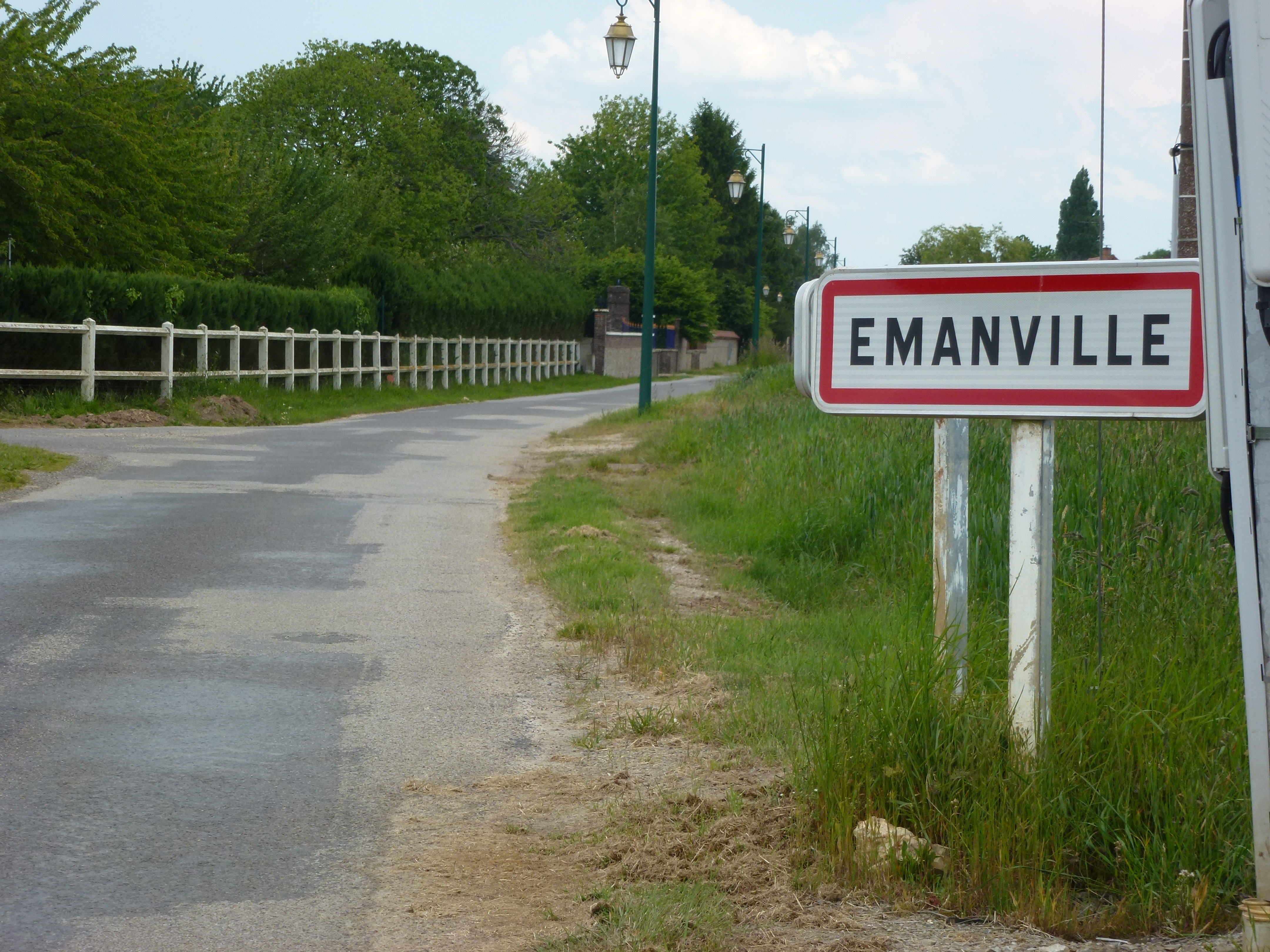 Émanville (Eure, fr) city limit sign